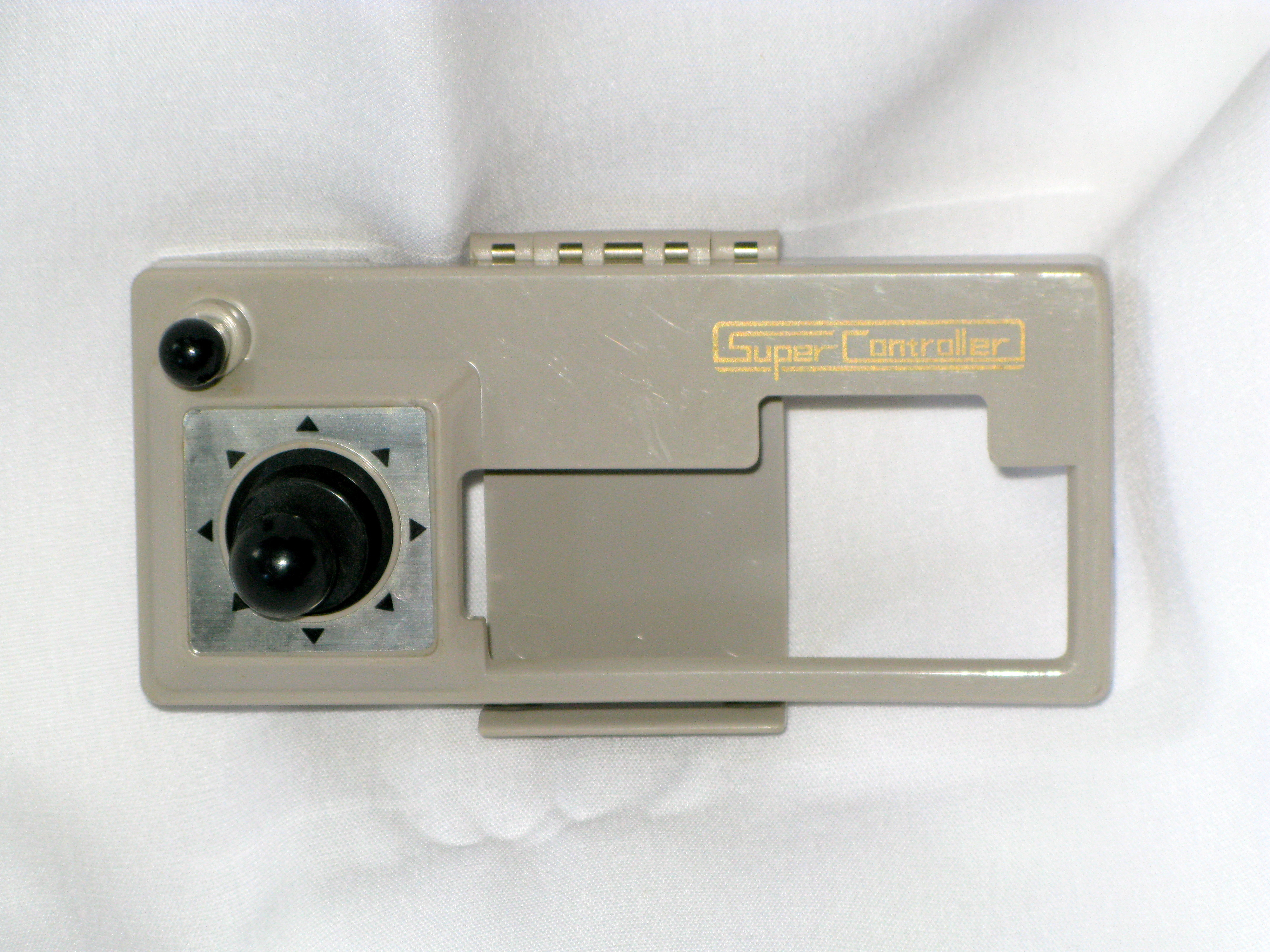 The Super Controller by Bandai.